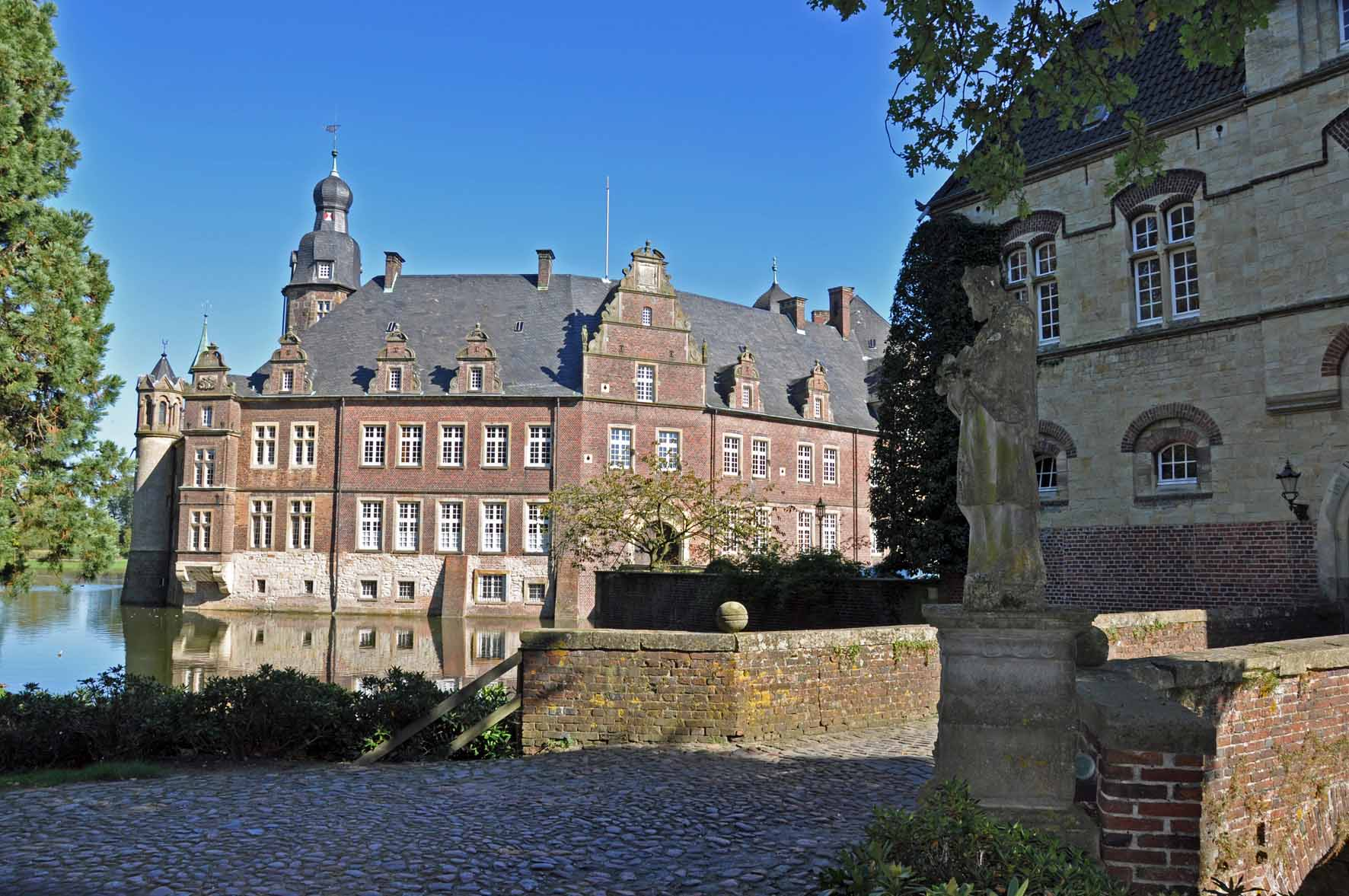 "Vorburg", right, of the Darfeld castle, beyond here no trespassing, unfortunately